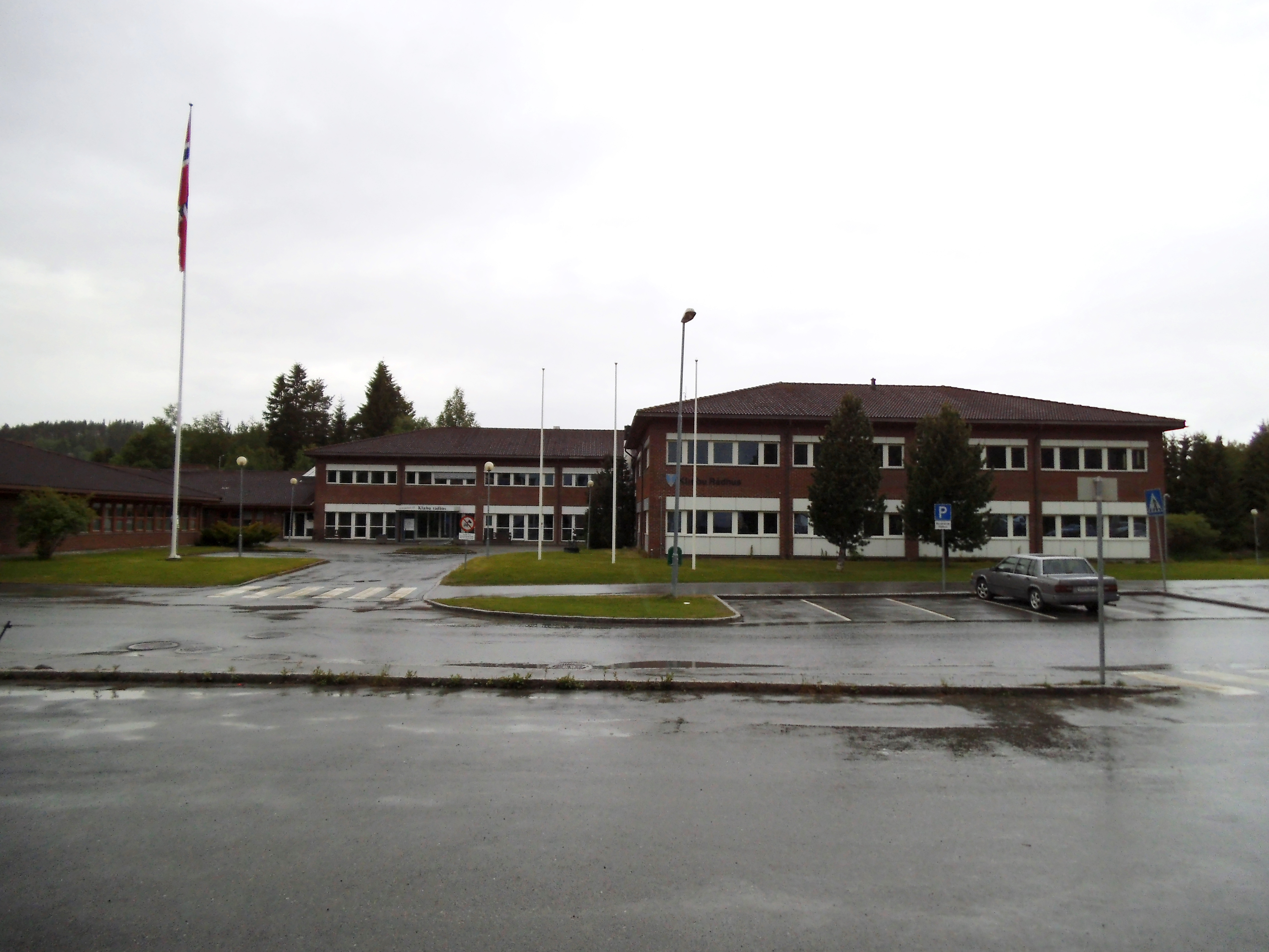 Town hall of Klæbu, Norway.